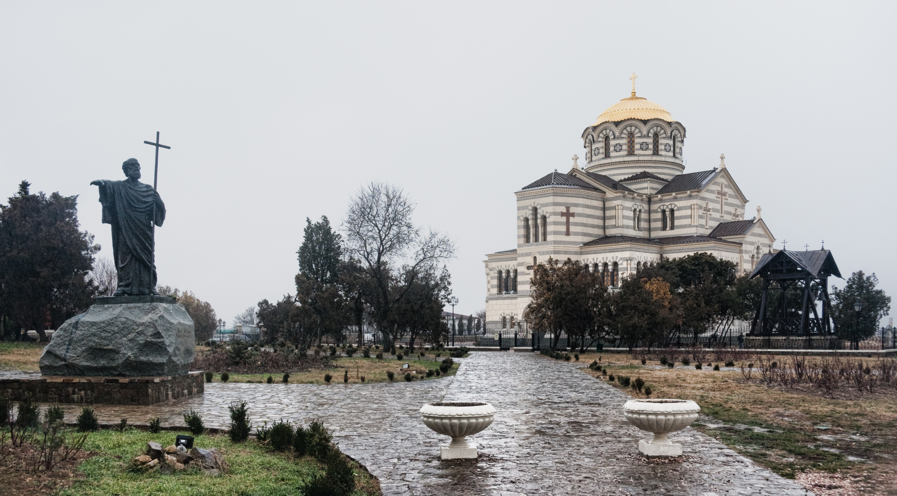 St. Vladimir Cathedral in Chersonesos, Crimea